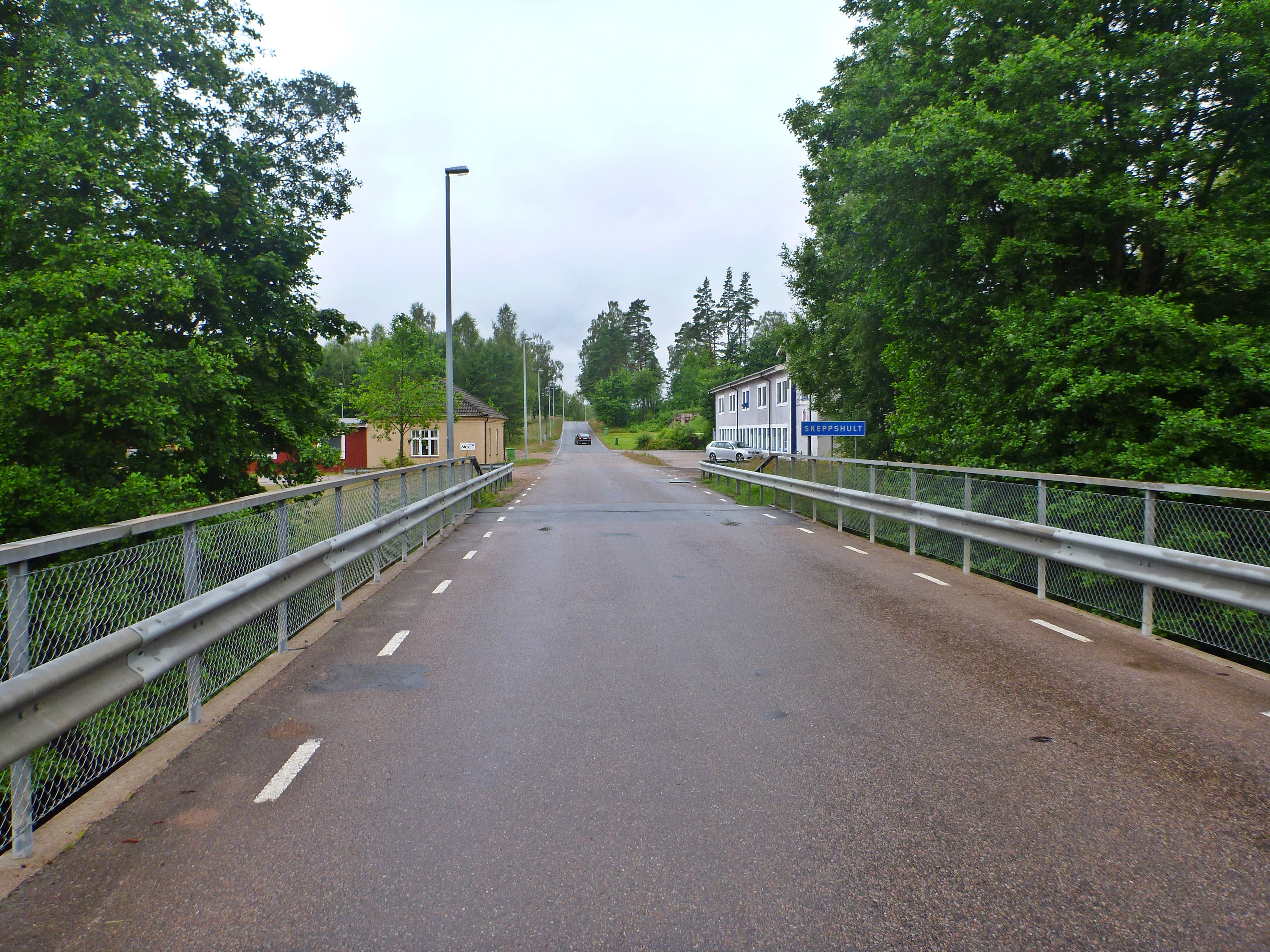 Skeppshult from east with placename sign